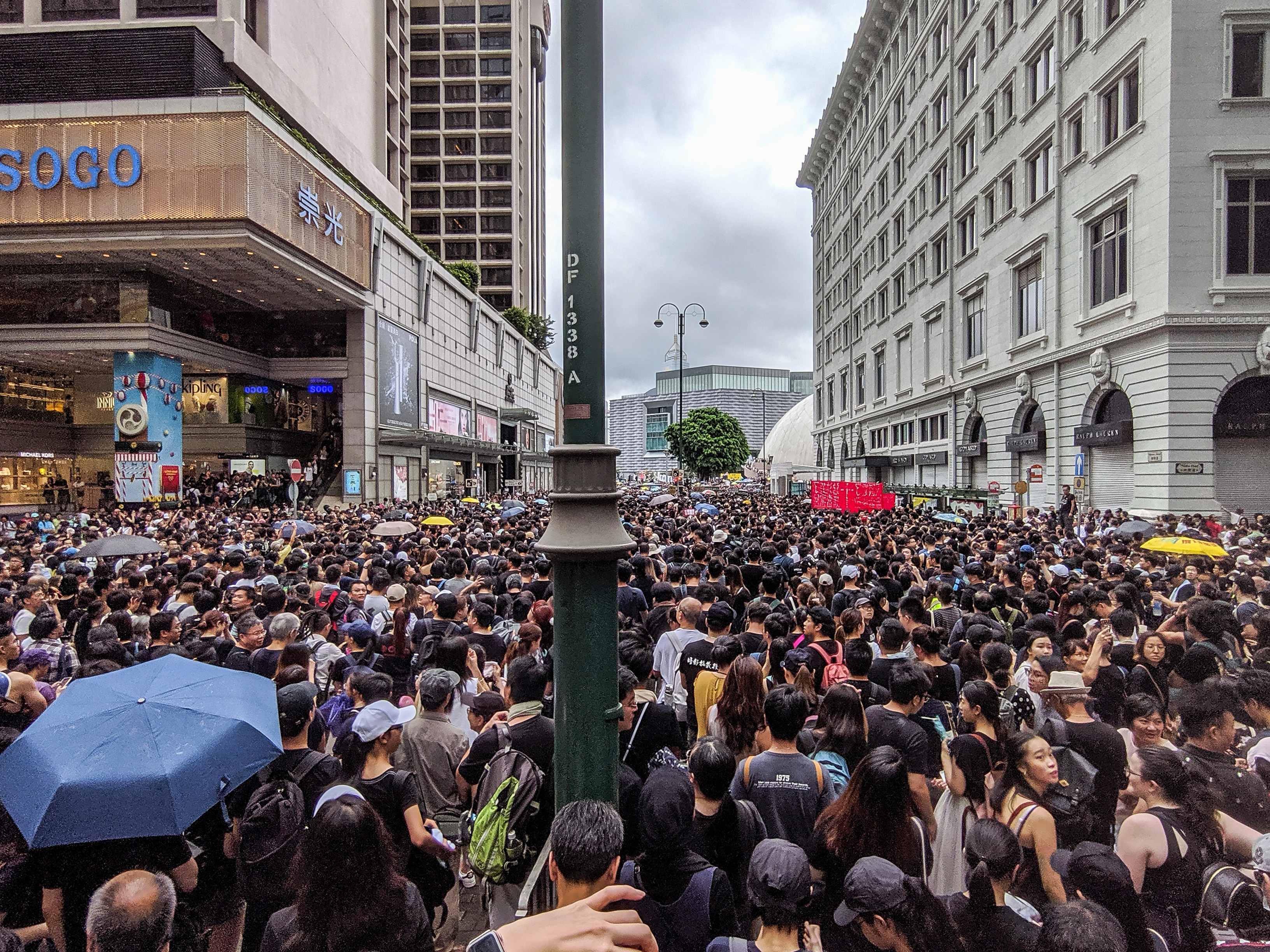 2019 Hong Kong anti-extradition law protest on 7 July 2019 in Tsim Sha Tsui, captured by Studio Incendo from Flickr.